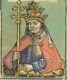 Wood cut from the Nuremberg Chronicle (Latin copy in Sao Paulo)